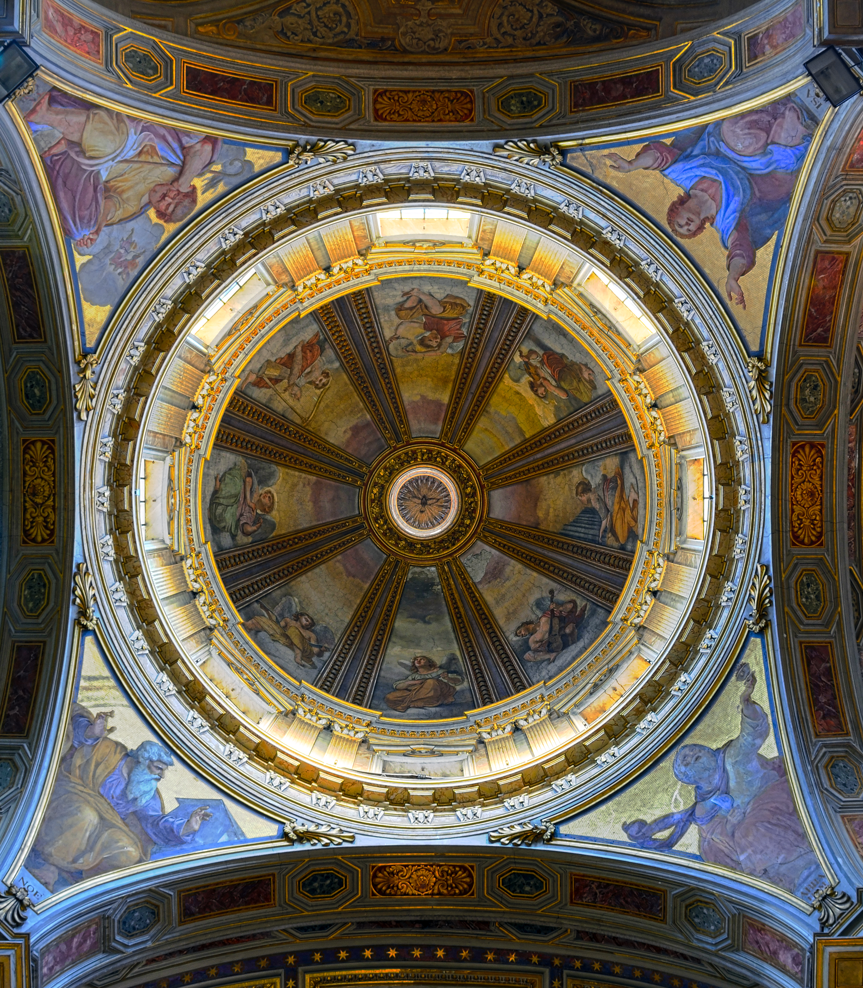 Dome of San Rocco all'Augusteo (Rome) HDR